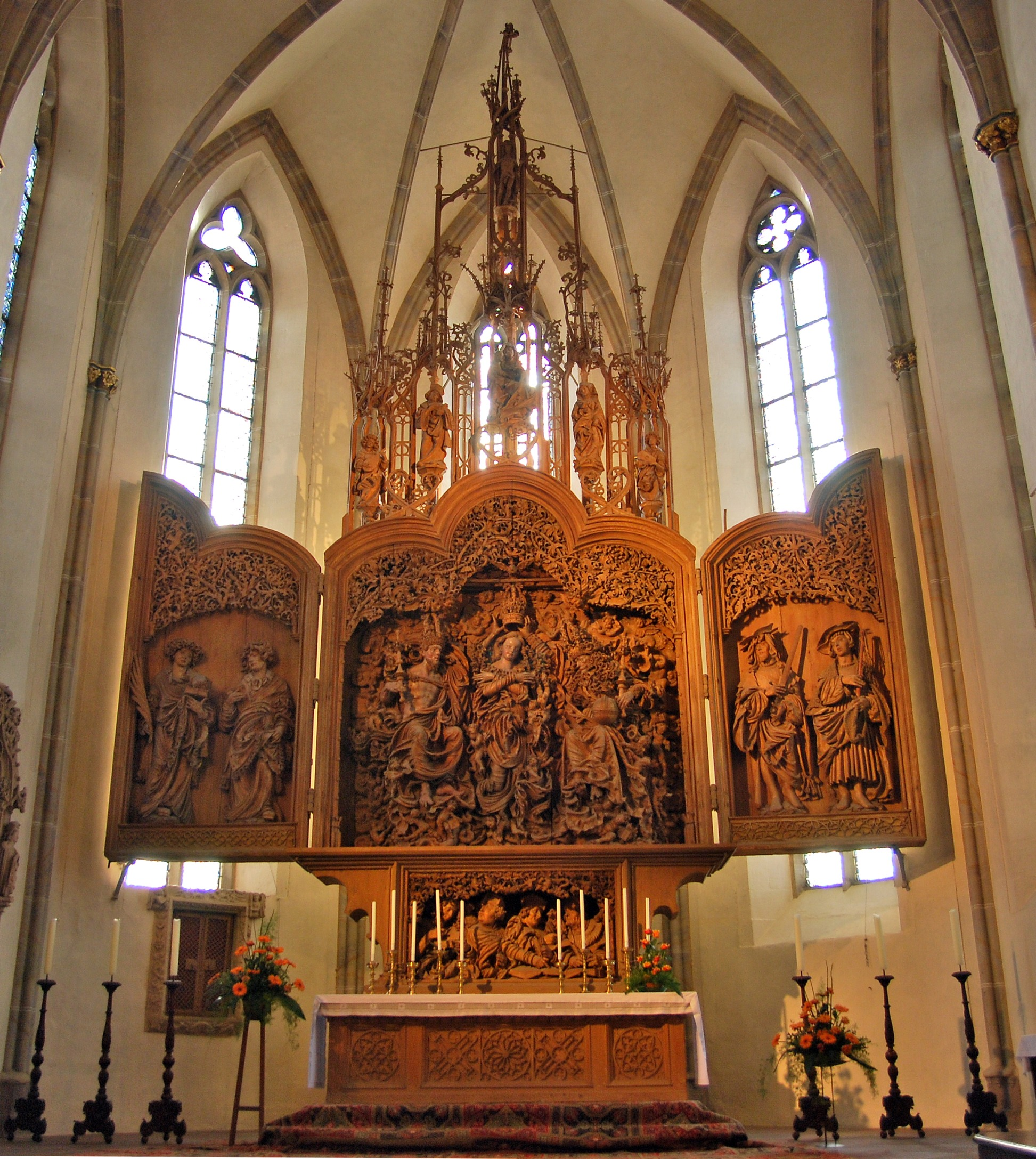 Breisach Minster high altar.